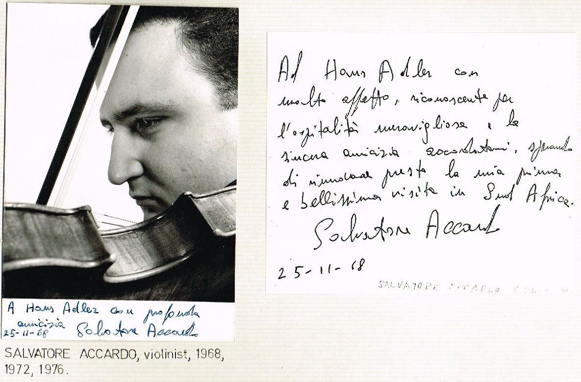 1968 photo on first of three acclaimed tours of Southern Africa, arranged by Hans Adler Other information In Hans Adler Memorial Museum, Witwatersrand University South Africa